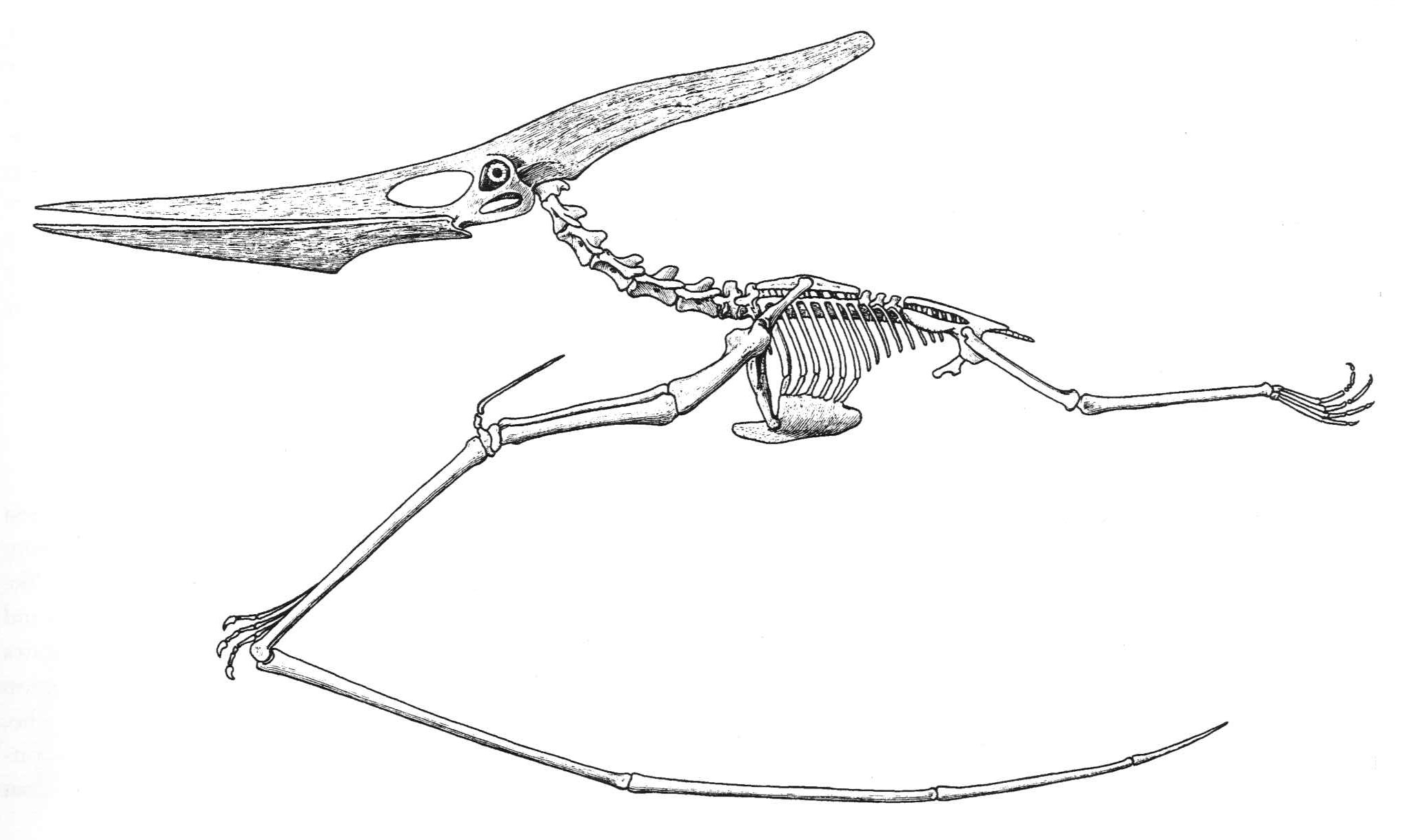 reconstruction of Pteranodon by palaeontologist George F. Eaton